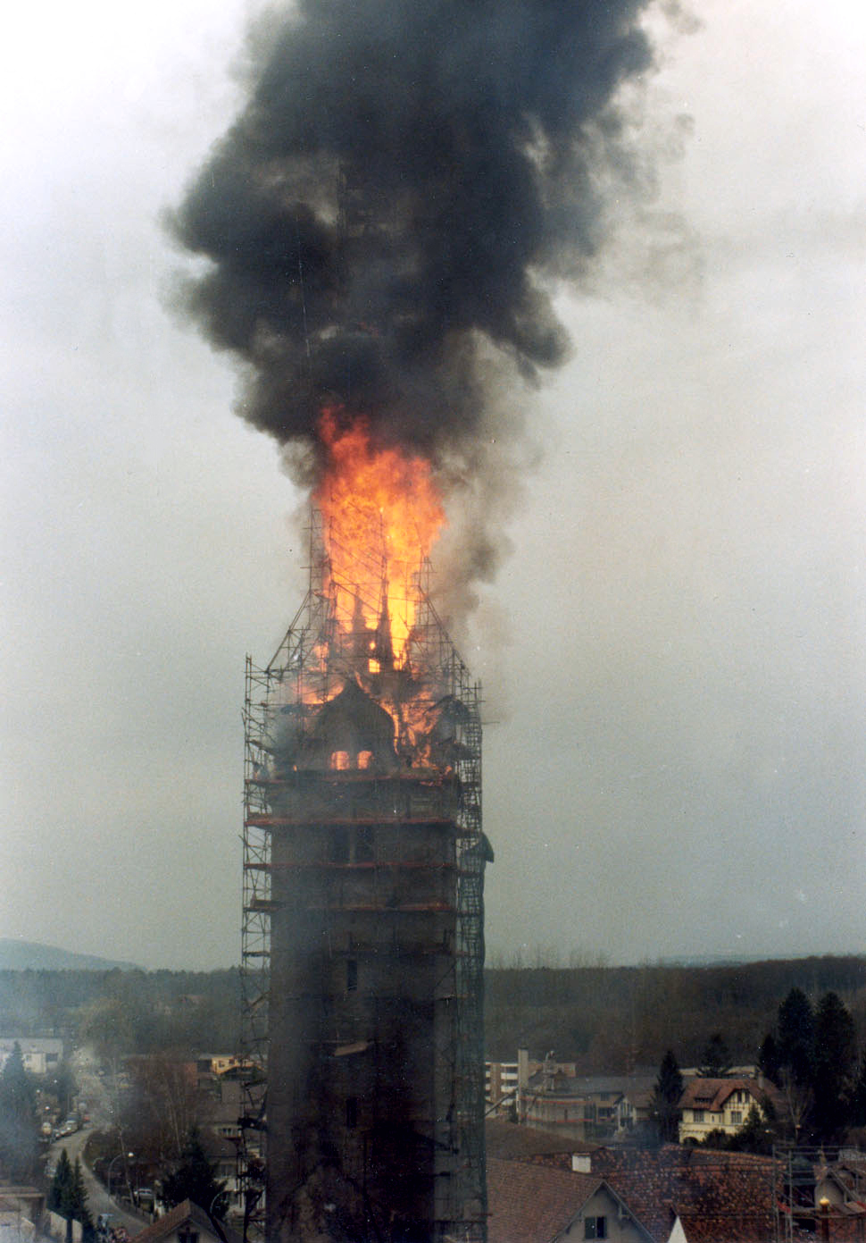 tower of Stadtkirche Bremgarten on fire